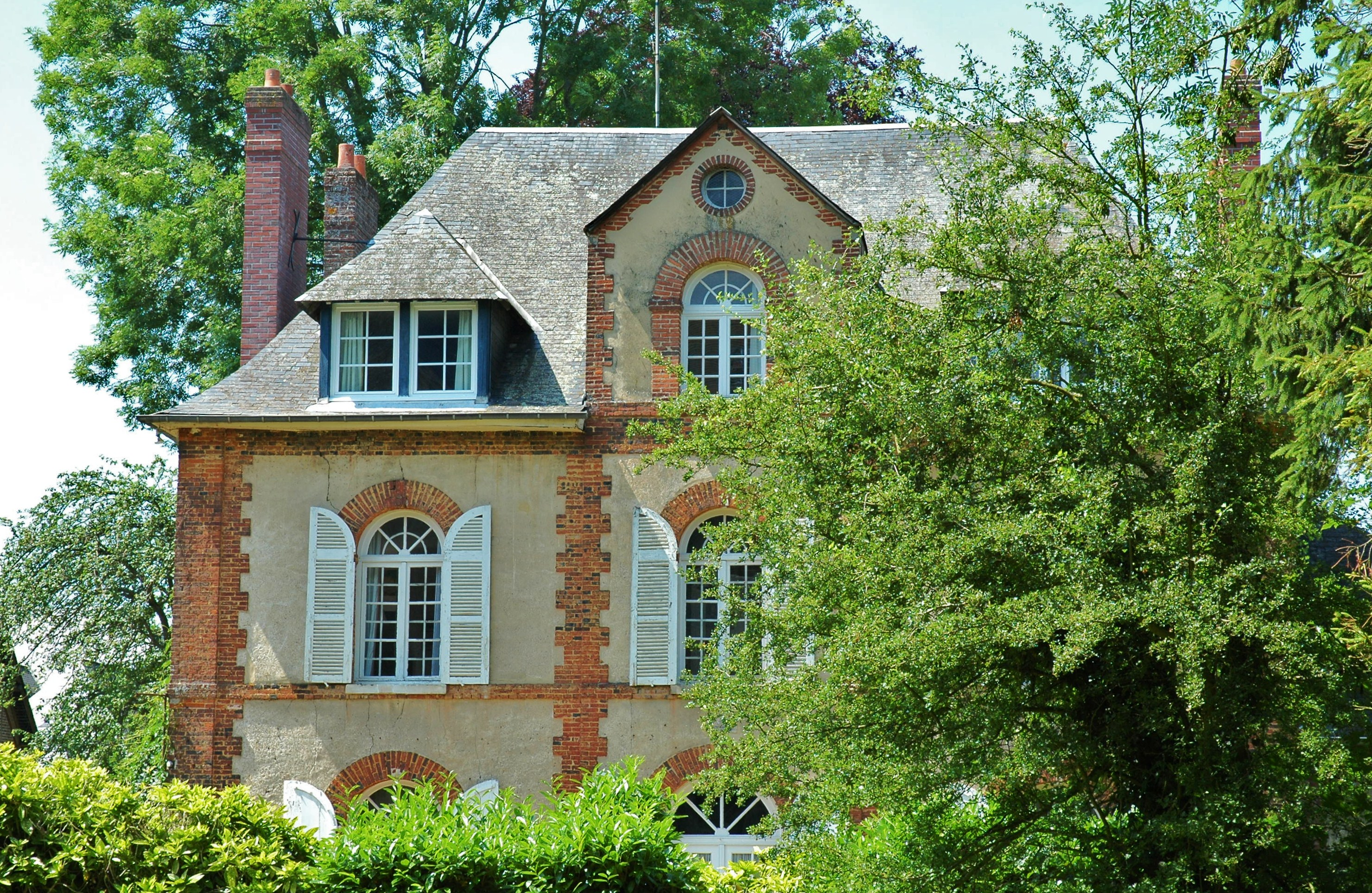 House of Marcel Duchamp's parents in Blainville-Crevon,Normandy. A similar photo (black and white) is shown in Calvin Tomkins biography "Duchamp" (german edition, p. 31)